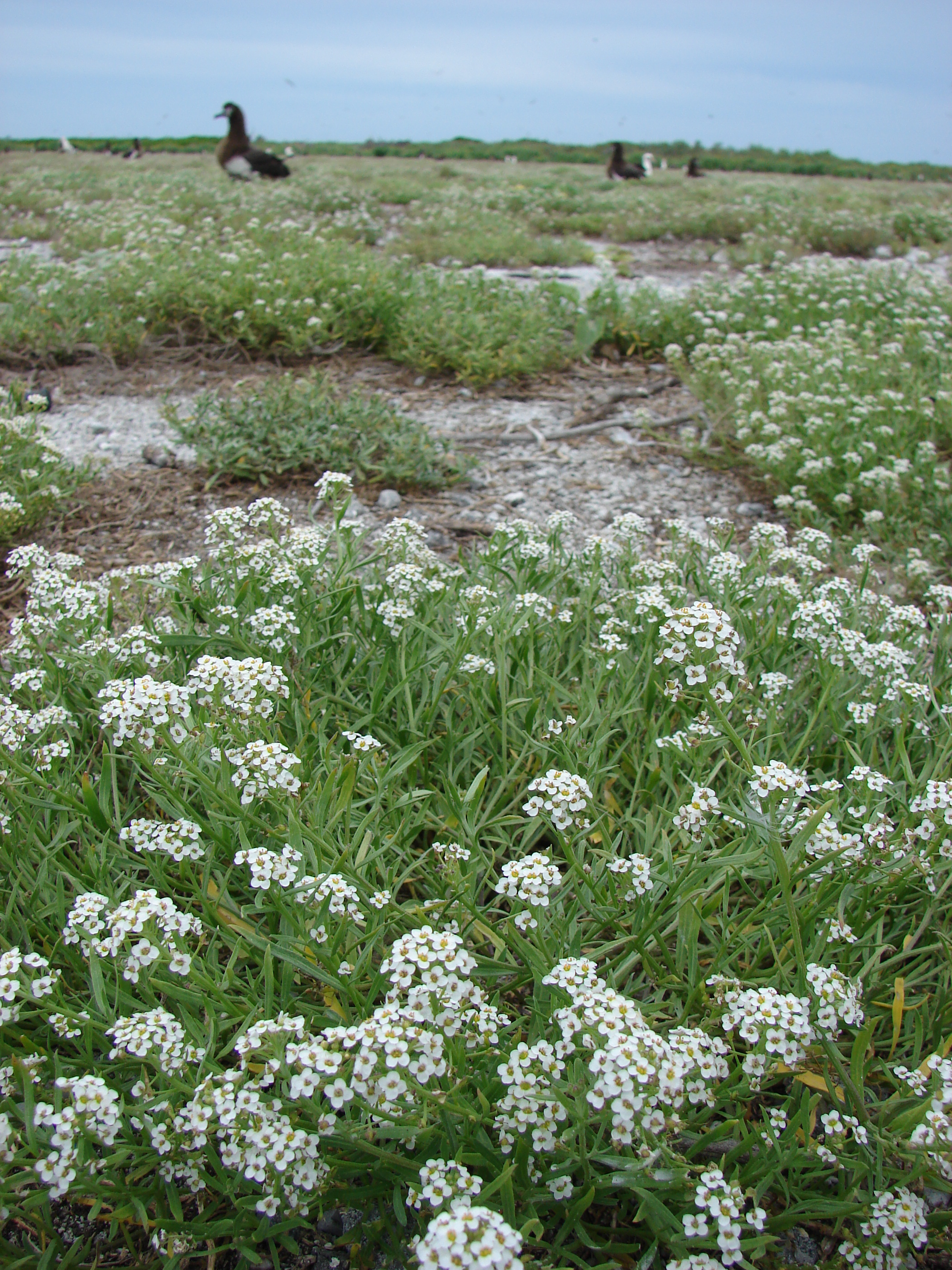 Lobularia maritima (habit with Laysan albatross). Location: Midway Atoll, Abandoned runway Eastern Island